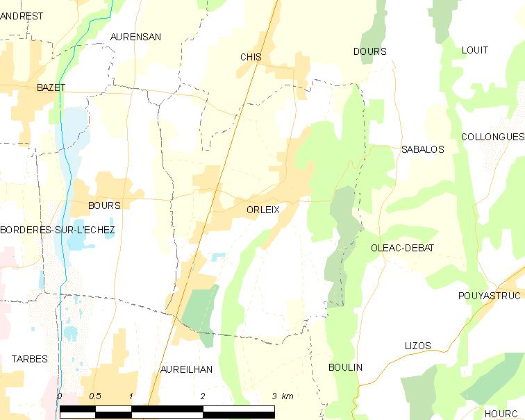 Map of French municipality